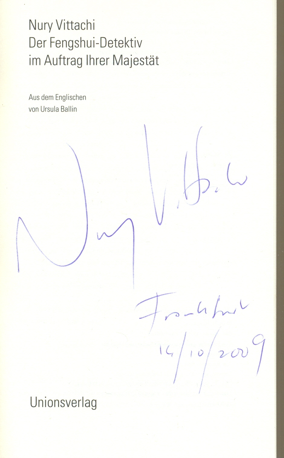 Autograph from Nury Vittachi, writer from Hongkong